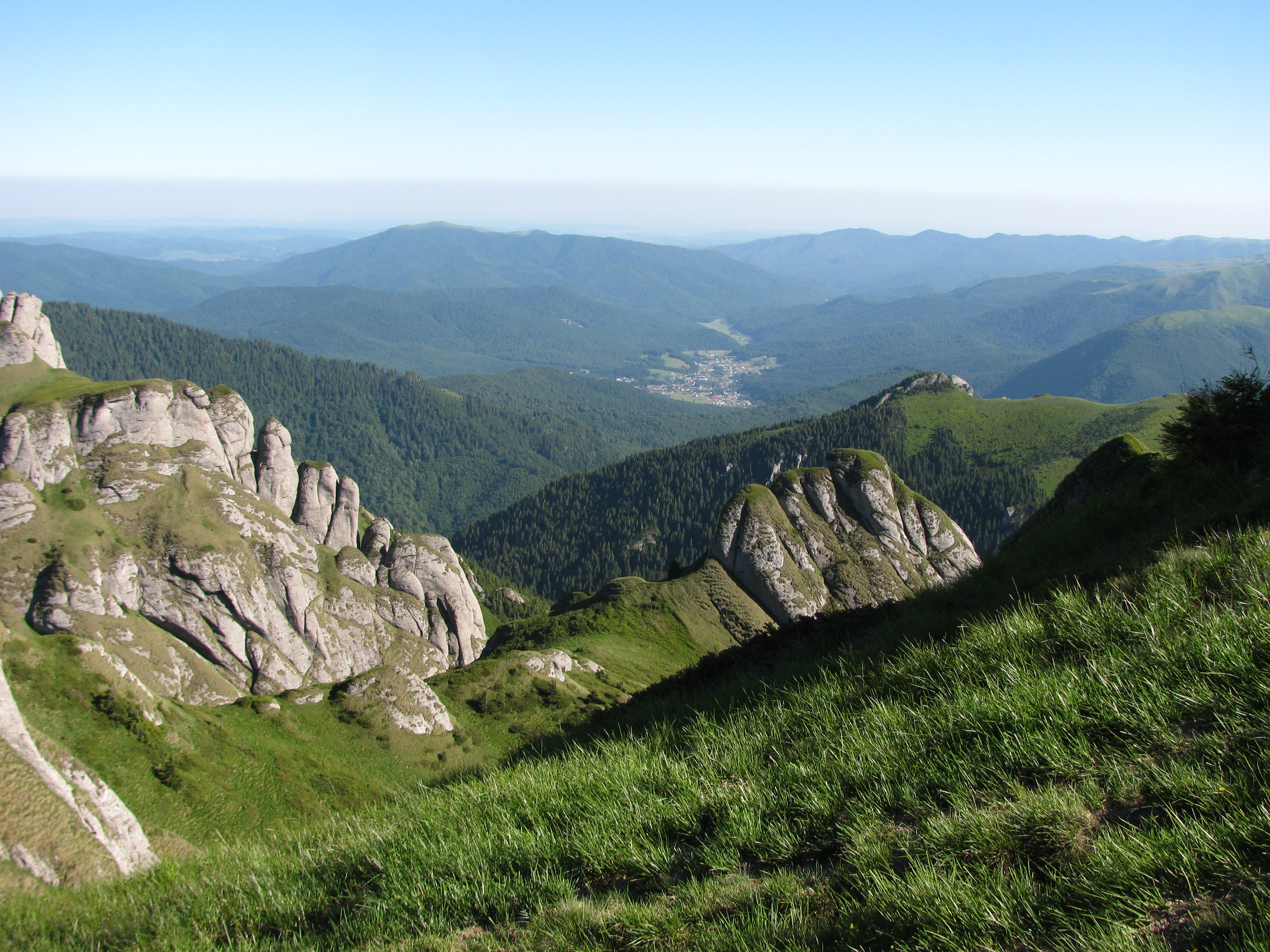 View from the Ciucaş mountains, Prahova County, Romania. Observe the characteristic limestone rock features of the sommet.